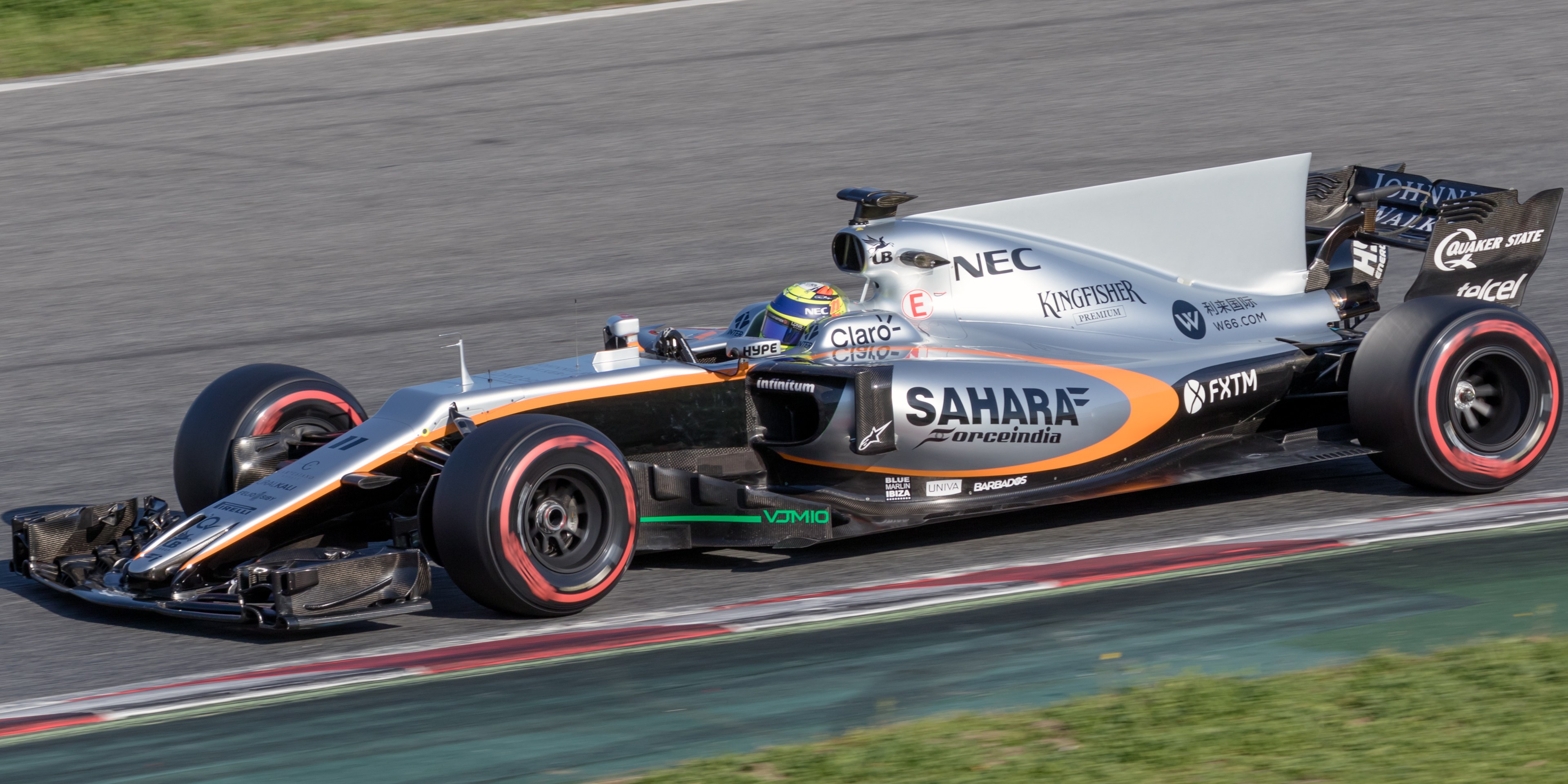 Formula One 2017 Catalonia test (27 February-2 March): Sergio Pérez (Force India)